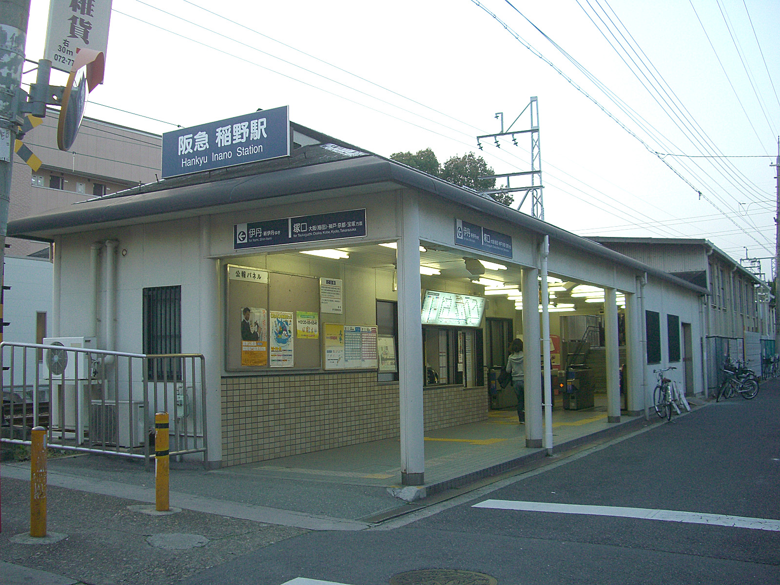 Hankyu Railway Itami Line Inano Station Building（East Gate）